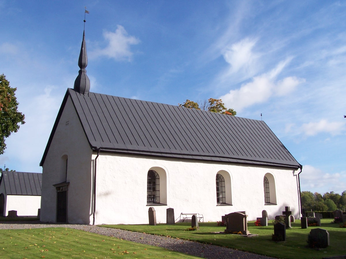 Sättersta church, Sweden